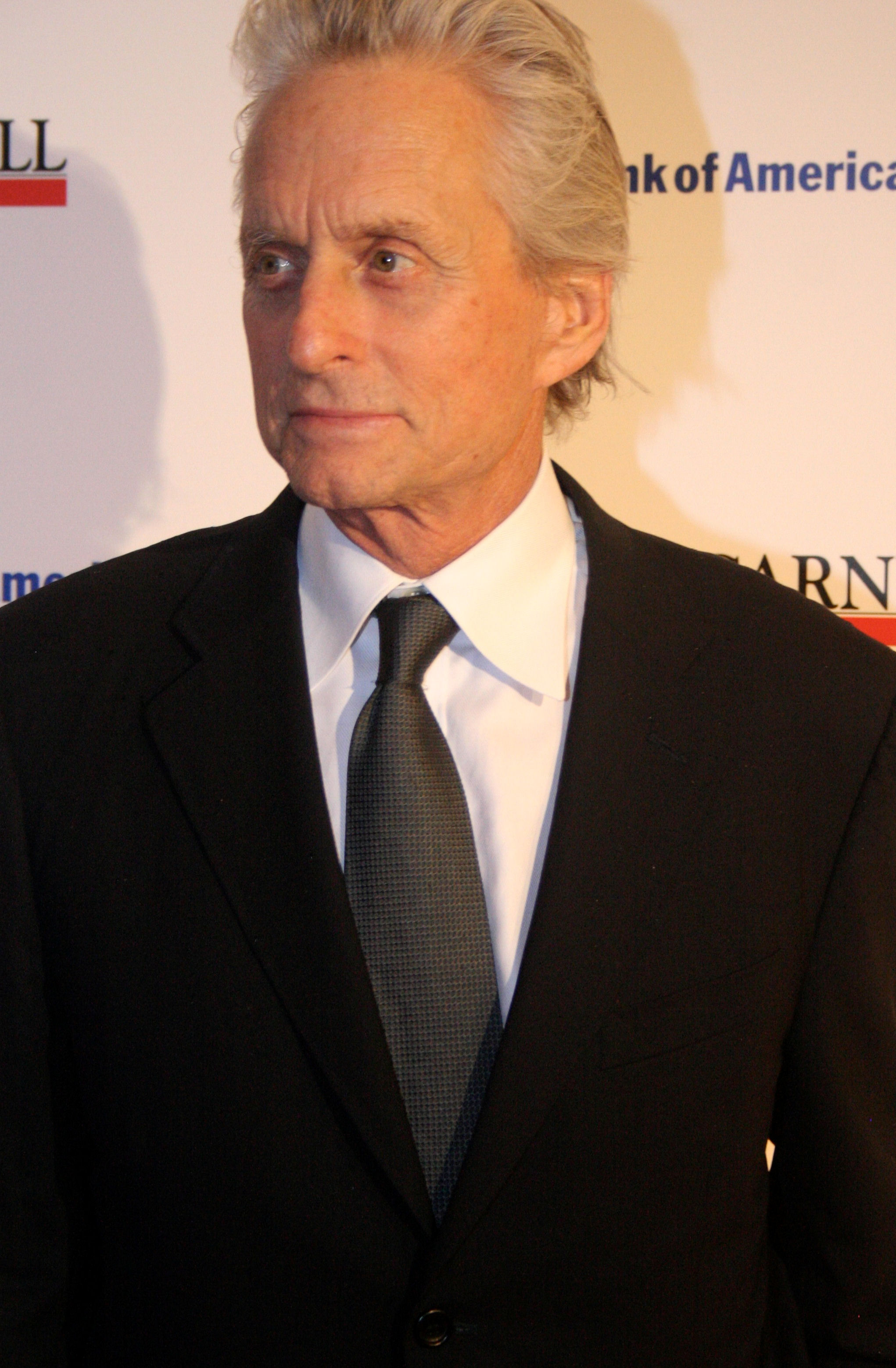 Michael Douglas at the 120th Anniversary of Carnegie Hall in MOMA, New York City in April 2011.